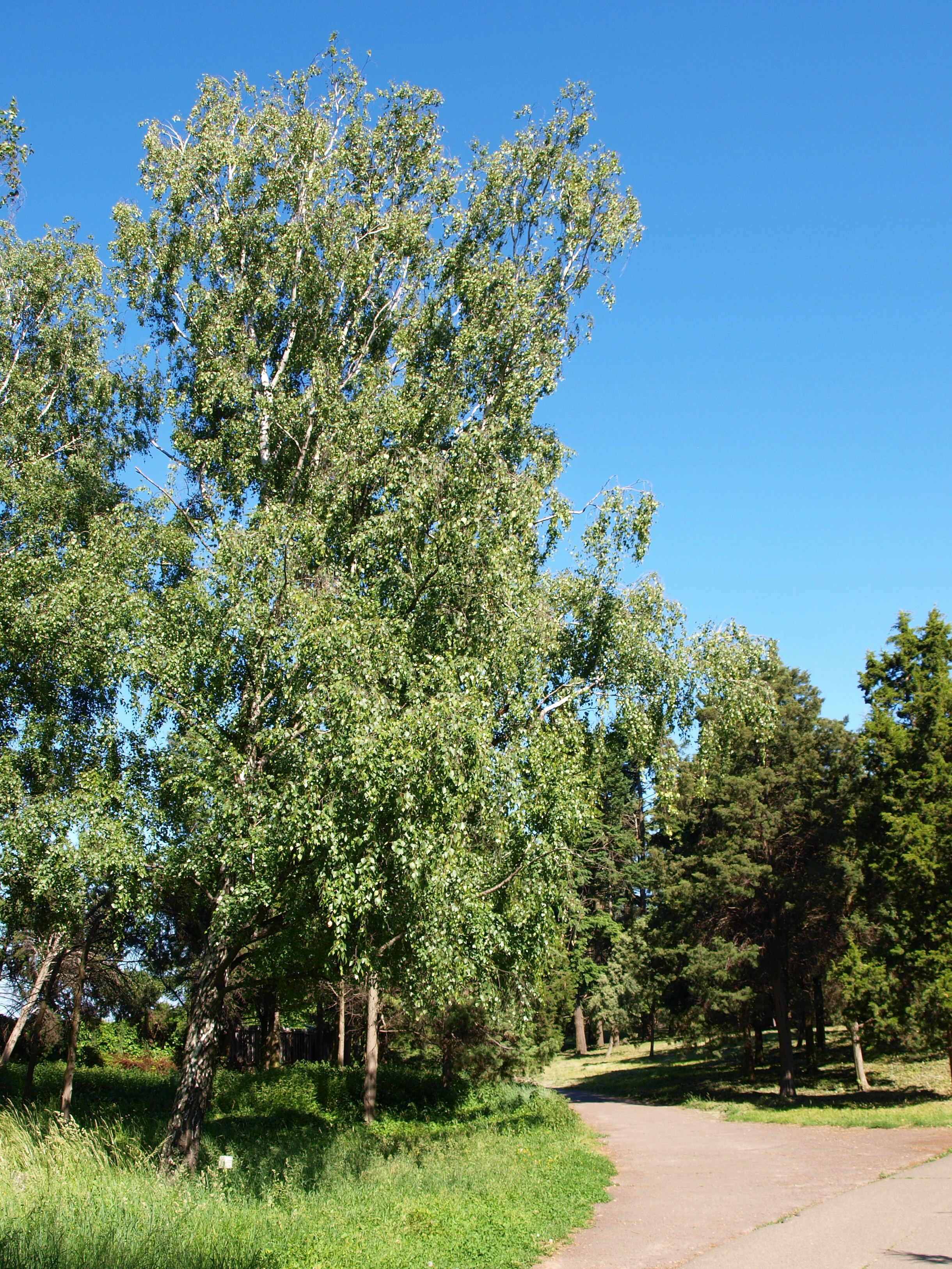 Betula pendula in BG Grishko (Kiev)